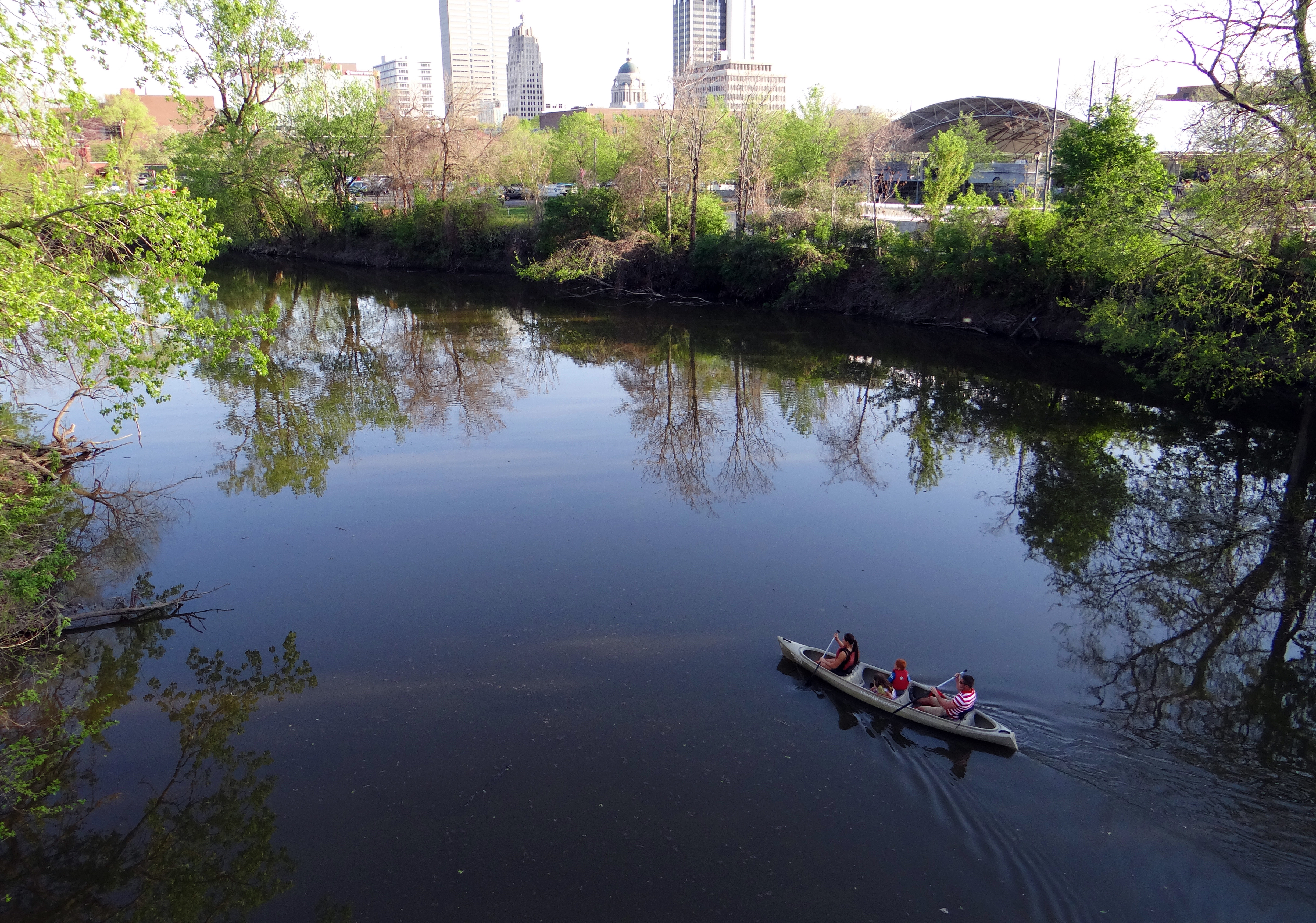 A family canoes down the St. Mary's River near downtown Fort Wayne, Indiana.